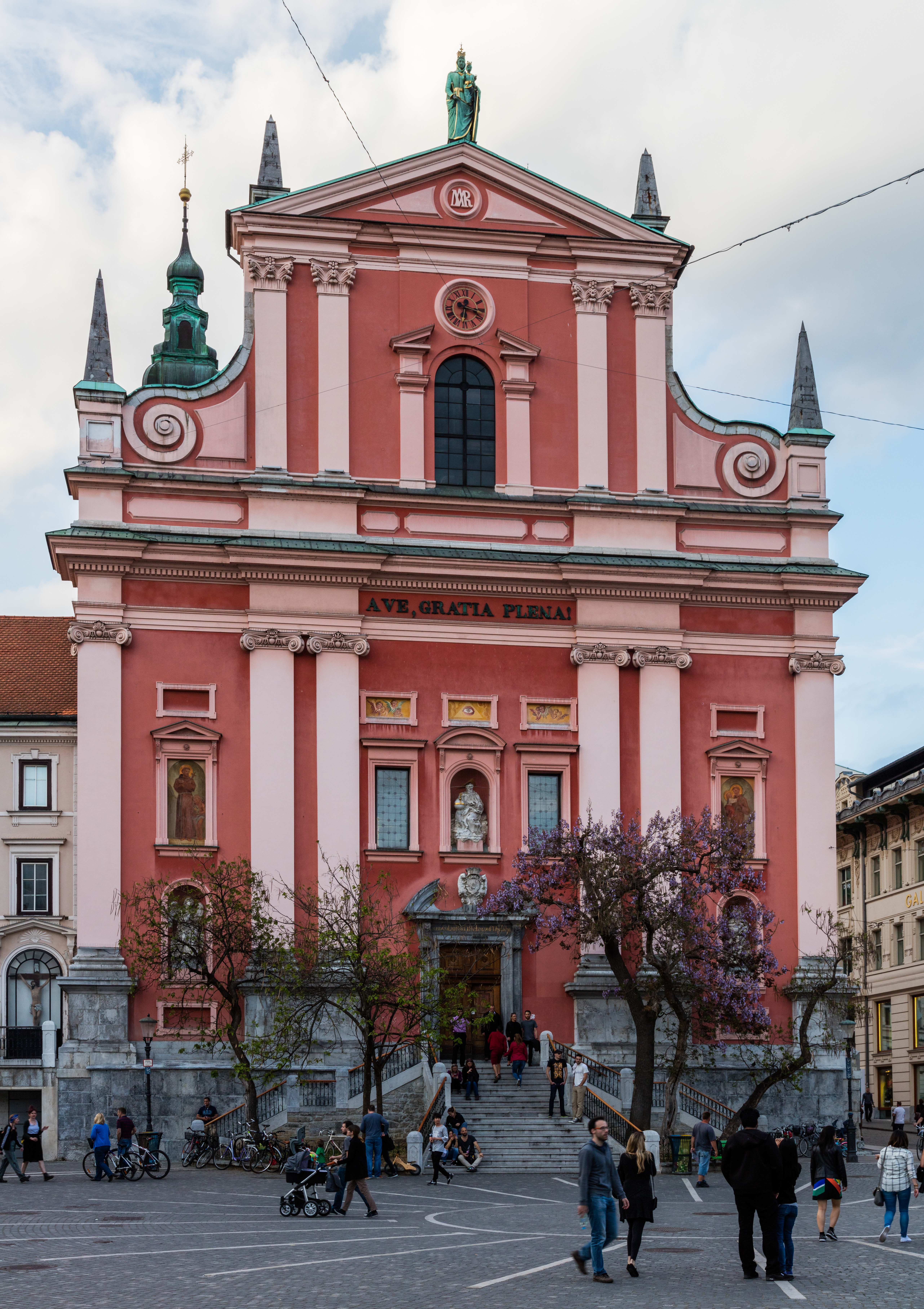 Annunciation Church, Ljubljana, Slovenia